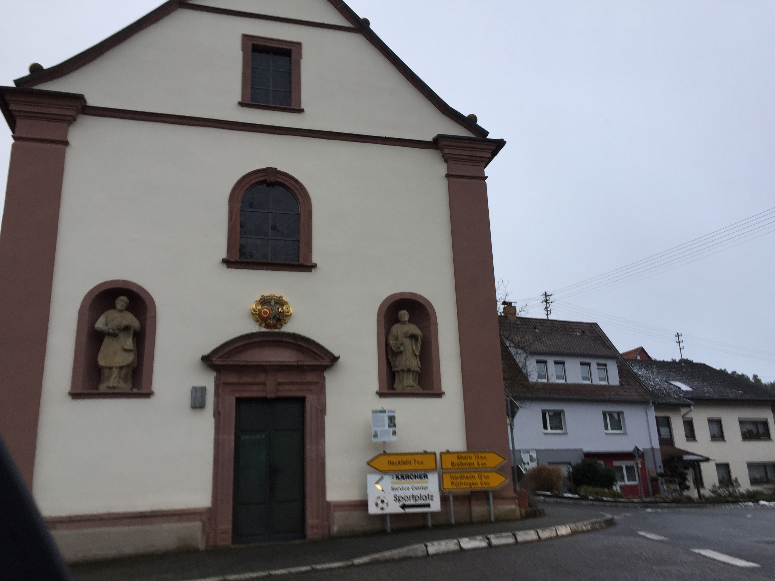 The photo has been taken in Januar 2018